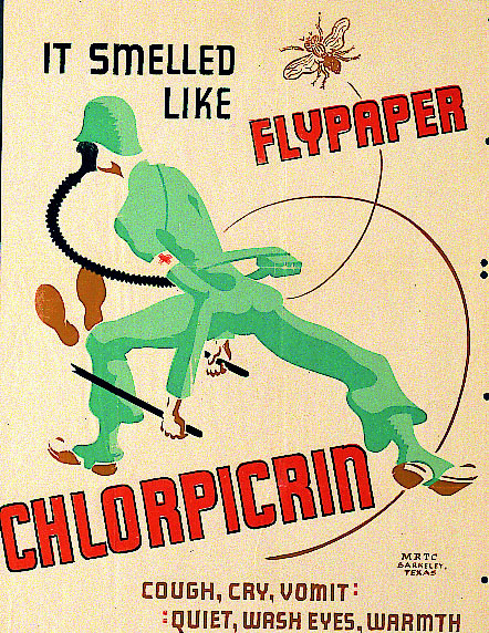 World War II Gas Identification Posters, ca. 1941–1945